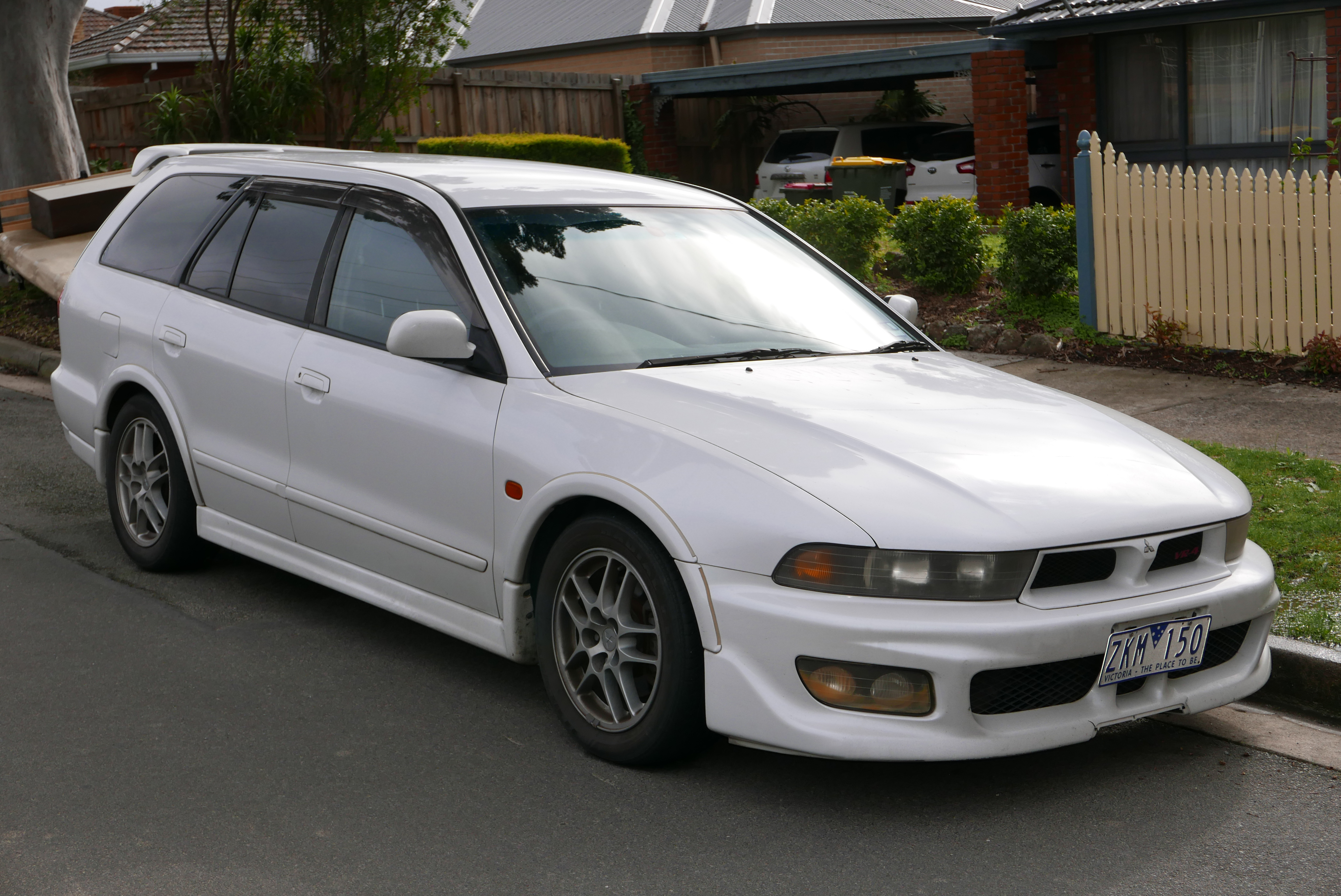 1999 Mitsubishi Legnum (EC5W) VR-4 type-S station wagon. This is a grey import from Japan, complianced for Australia in May 2011. Photographed in Blackburn North, Victoria, Australia. Vehicle registration enquiry results Jurisdiction Victoria Registration ZKM150 Chassis code 6U9000EC5W0300818 Engine code 6A13BK6203 Compliance date 2011-05 Year of manufacture 1999